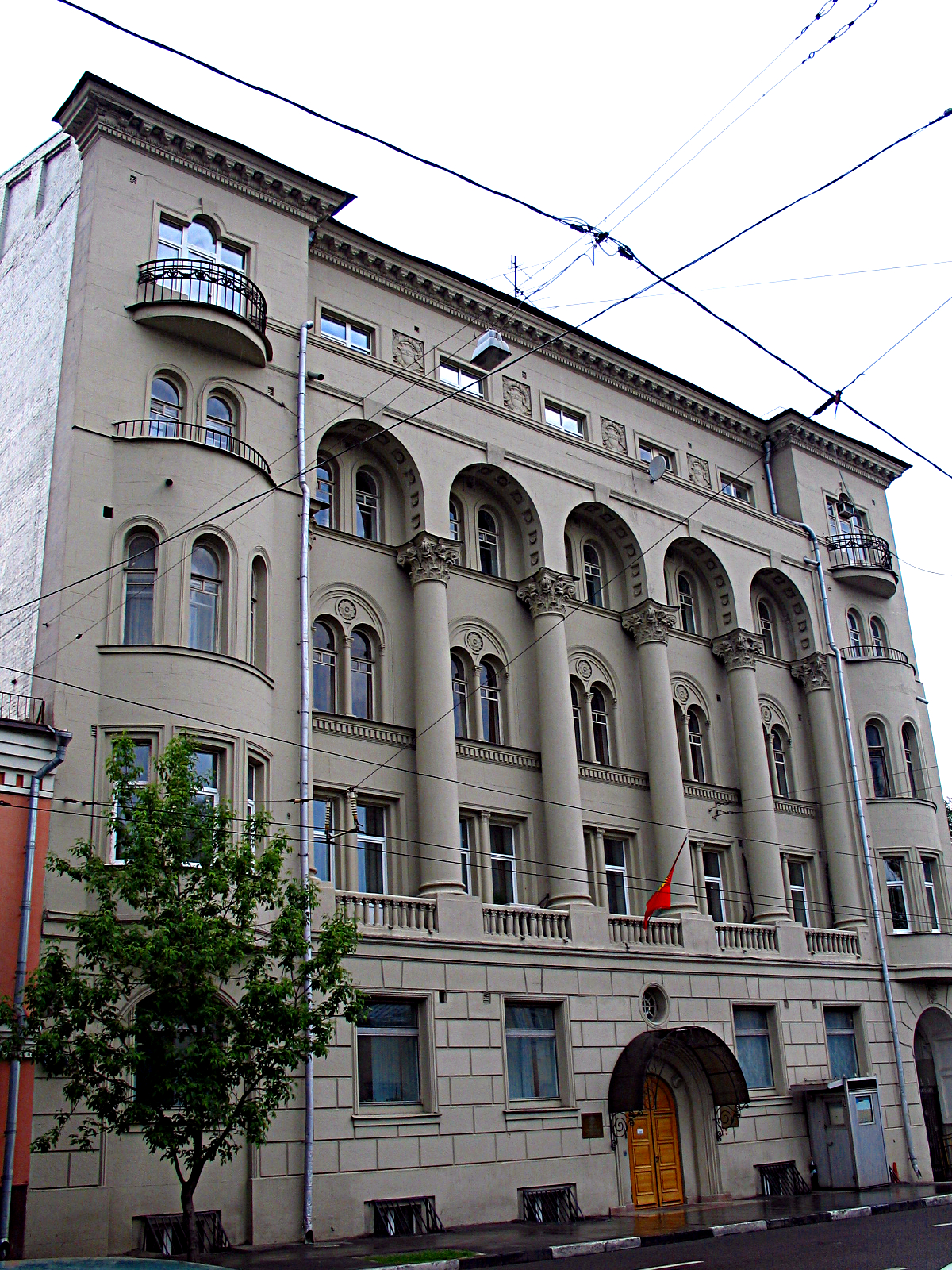 Embassy of Kyrgyzstan in Moscow (Bolshaya Ordynka Street, 64)